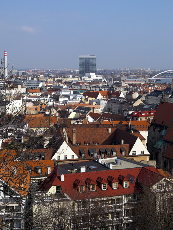 Taken from the Bratislava Castle hill.